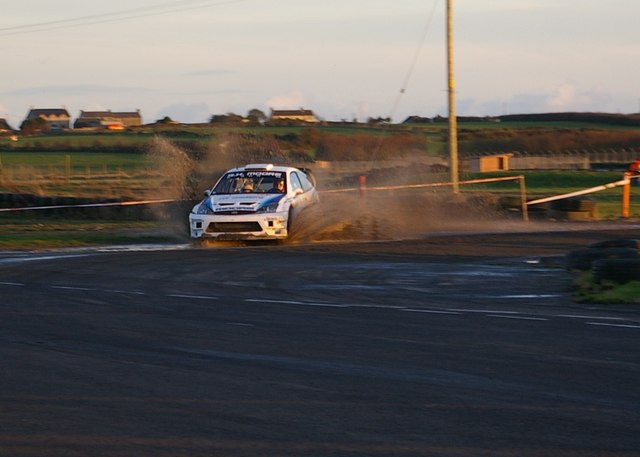 Kirkistown Motor Racing Circuit Kirkistown is home to the 500 Motor Racing Club of Ireland